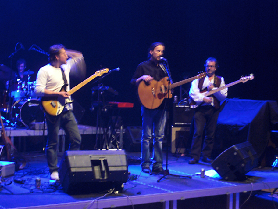 The Swedish progressive rock band Simon Says plays live at Frölunda Kulturhus in Göteborg, Västra Götaland County, Sweden, on 25 September 2009.